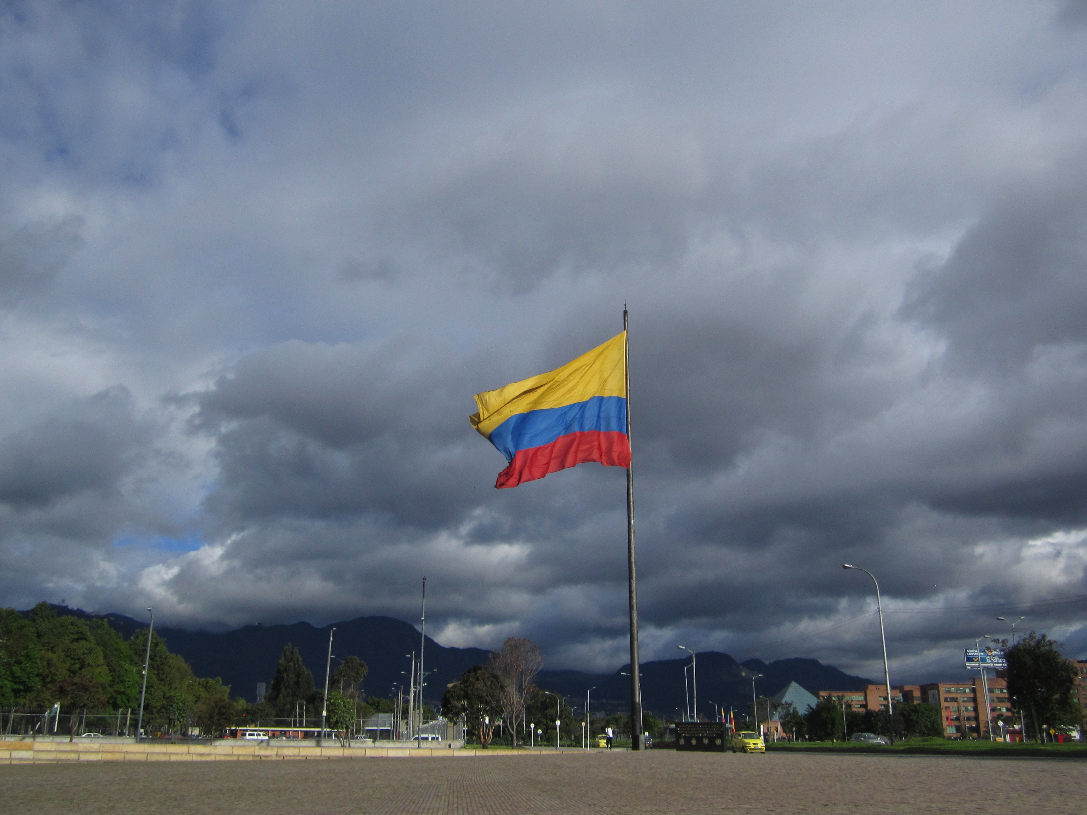 Bogotá